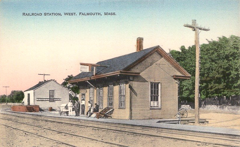 An early post card of the former West Falmouth, Massachusetts railroad station on Cape Cod.